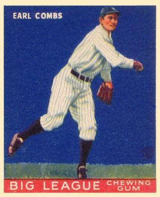 1933 Goudey baseball card of Earle Combs of the New York Yankees #103. PD-not-renewed.